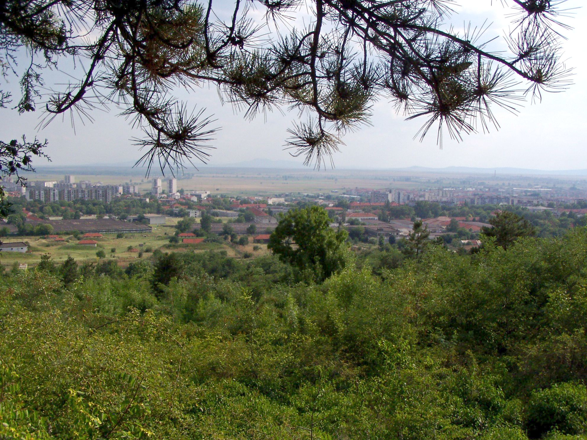 Panoramic view taken from Borovetz